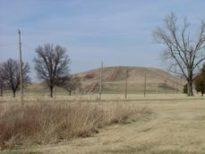 Monk's Mound at Cahokia. Credit: Alexander Smith